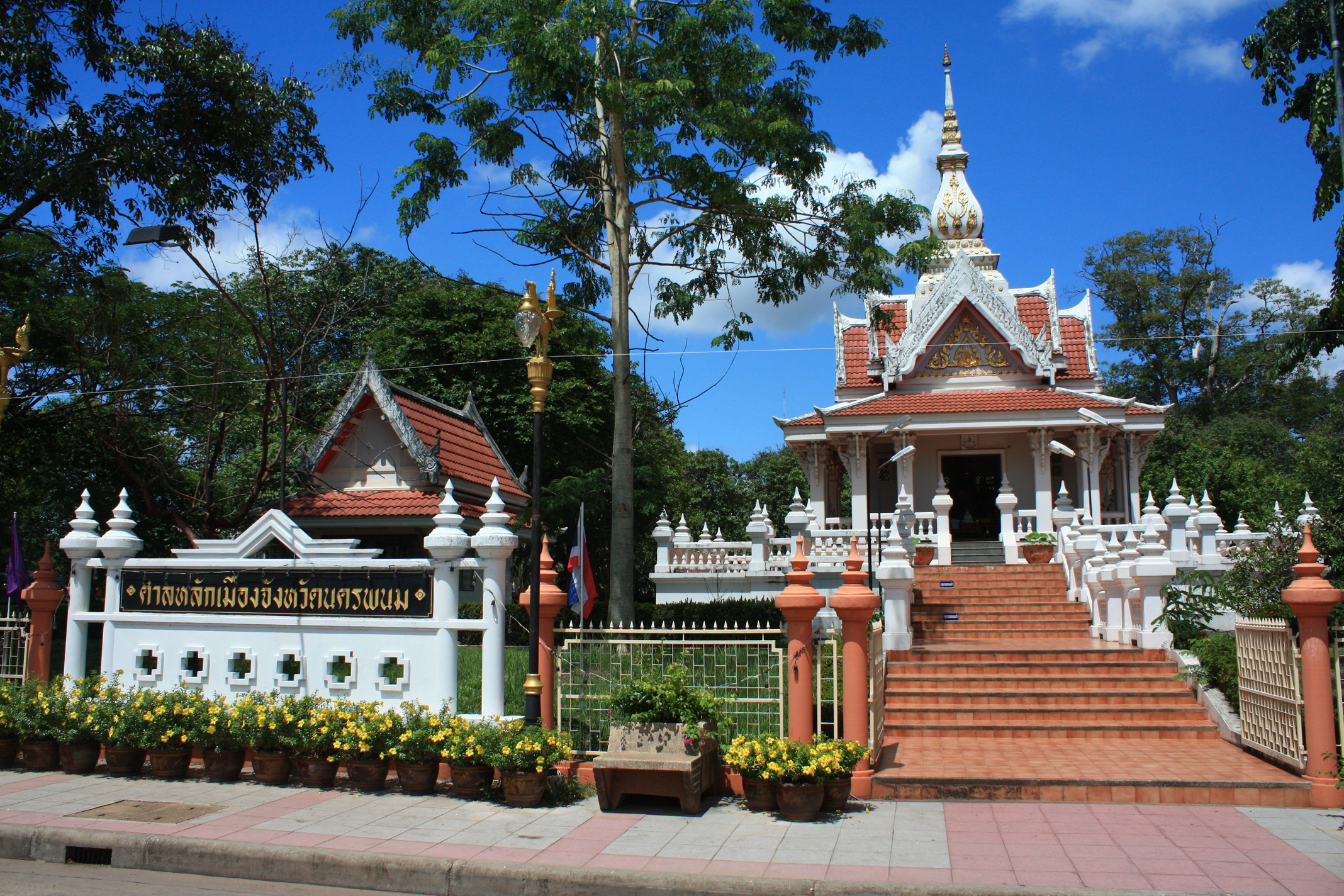 Sao Lak Mueang Nakhon Phanom (City Pillar Shrine)